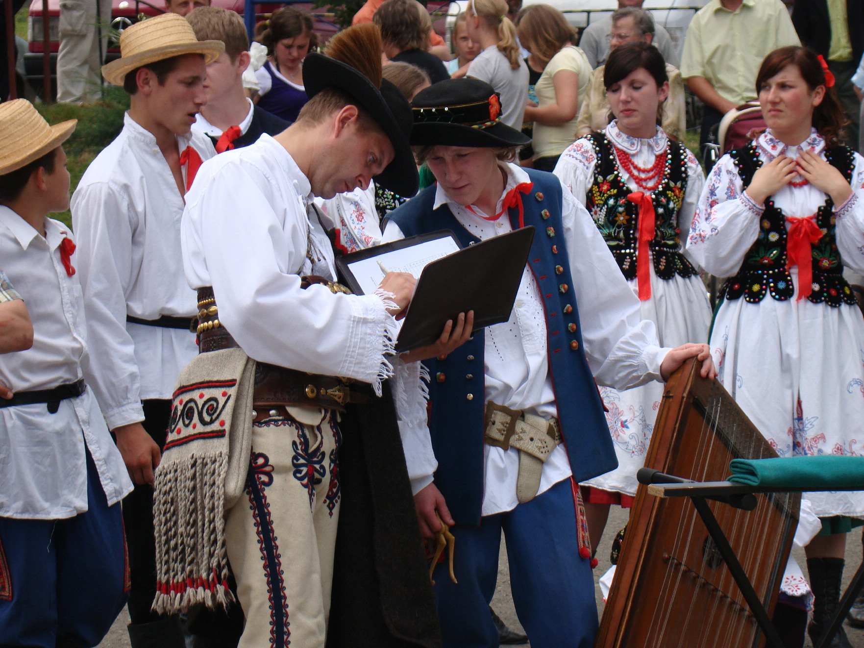 Folk festival in Bukowsko